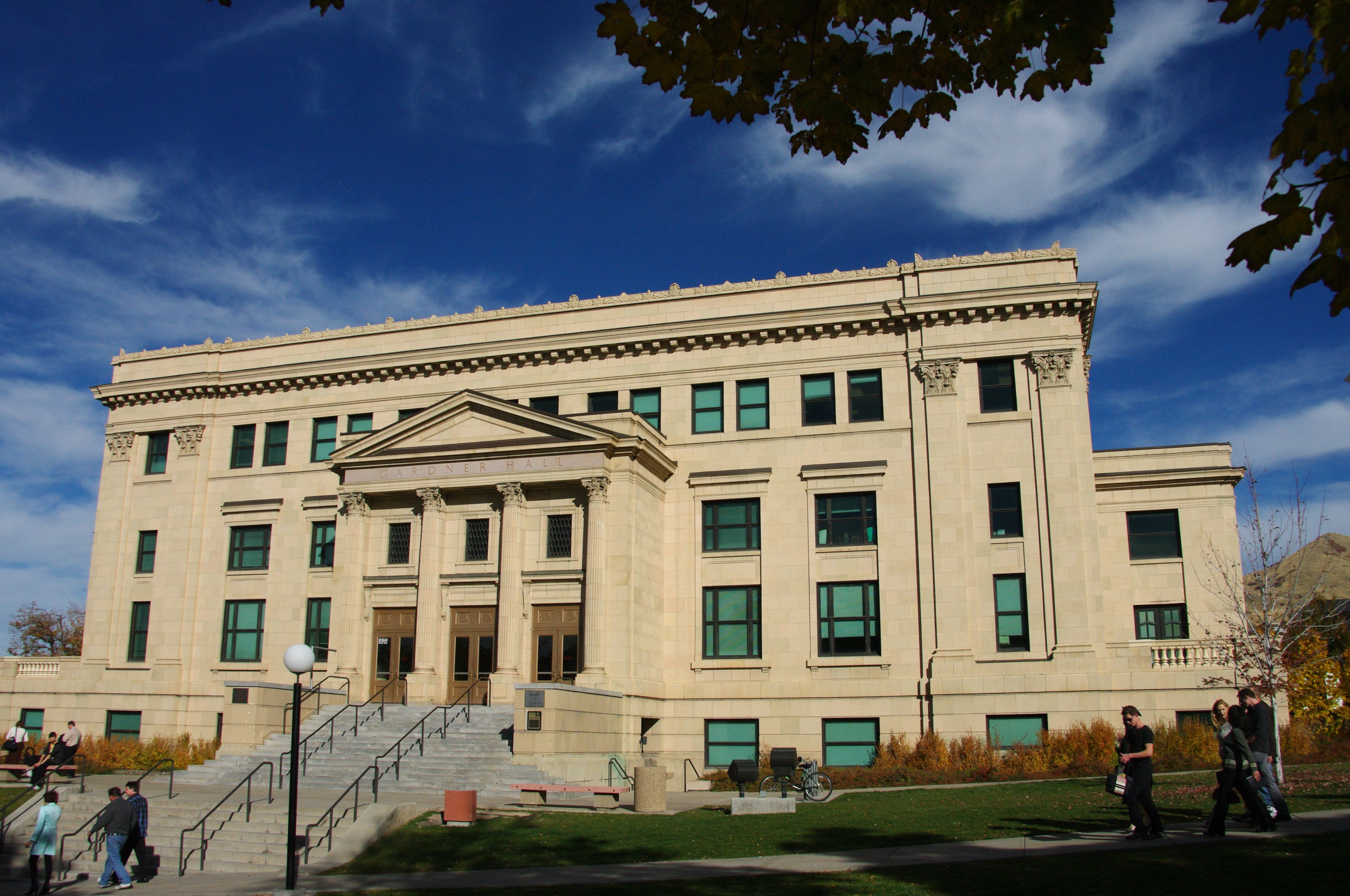 Gardner Hall on the campus of the University of Utah.